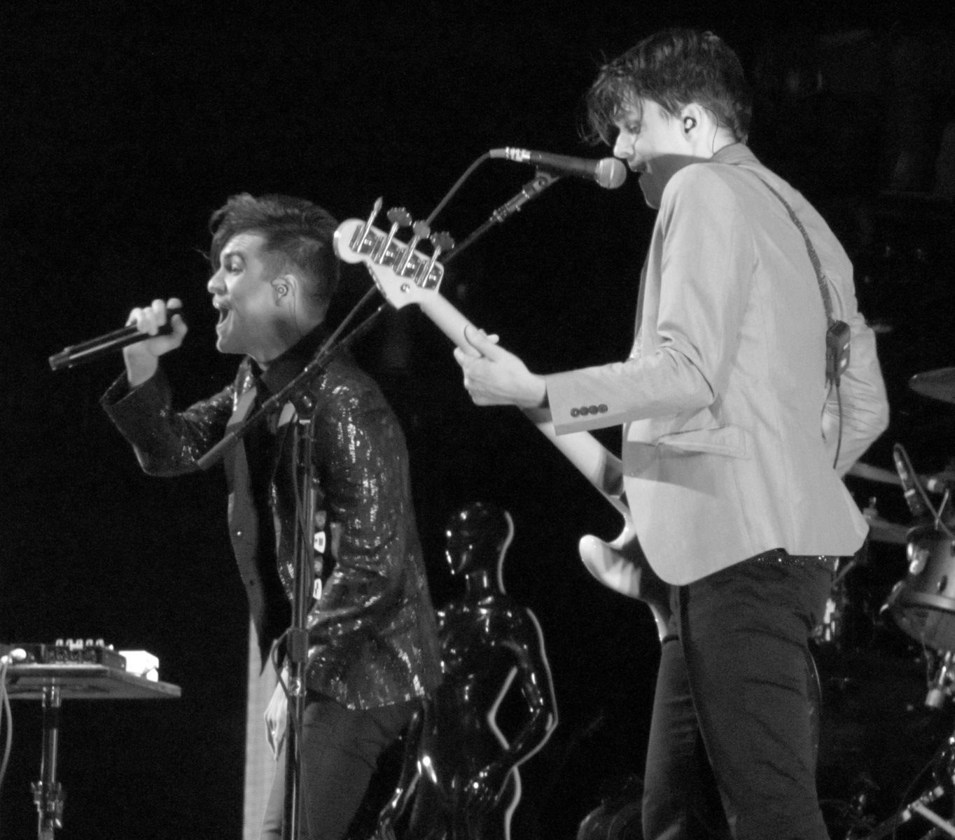 Panic! at the Disco performing in 2013; Brendon Urie (left) and Dallon Weekes (right)